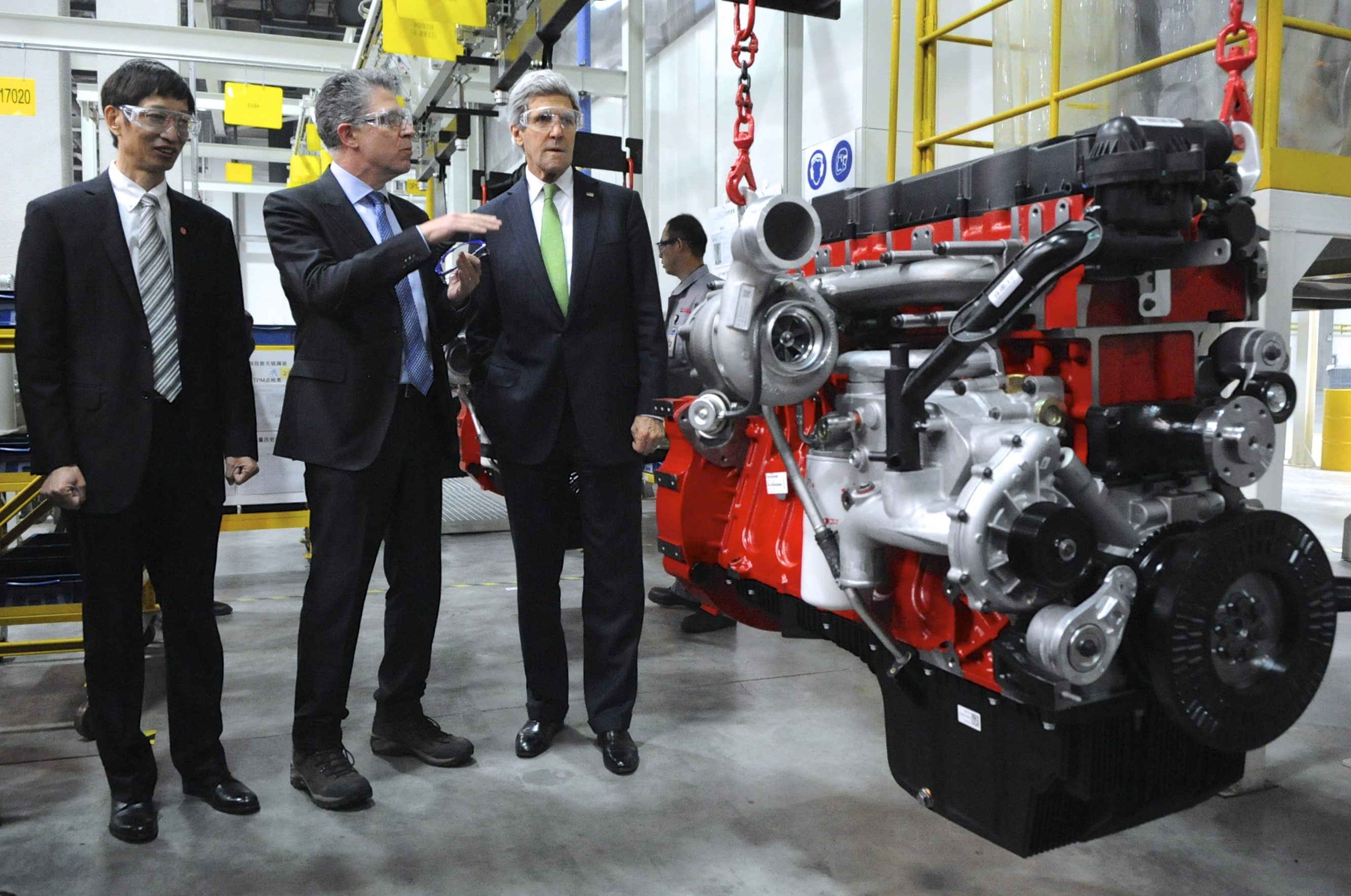 Cummins Vice President Steve Chapman shows U.S. Secretary of State John Kerry an assembled clean-diesel engine while touring the Cummins-Foton Joint Venture Plant in Beijing, China, on Feb. 15, 2014. [State Department photo/ Public Domain]